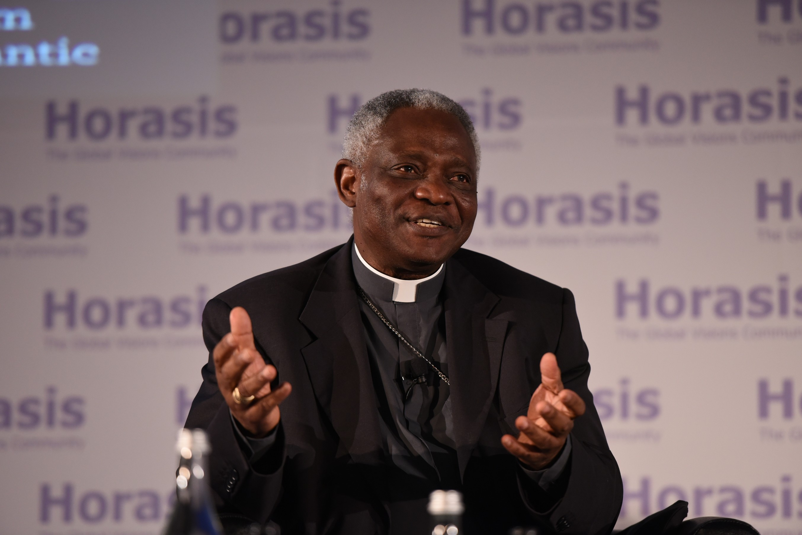 Horasis Global Meeting 2017, Cascais, Portugal, 27-30 May